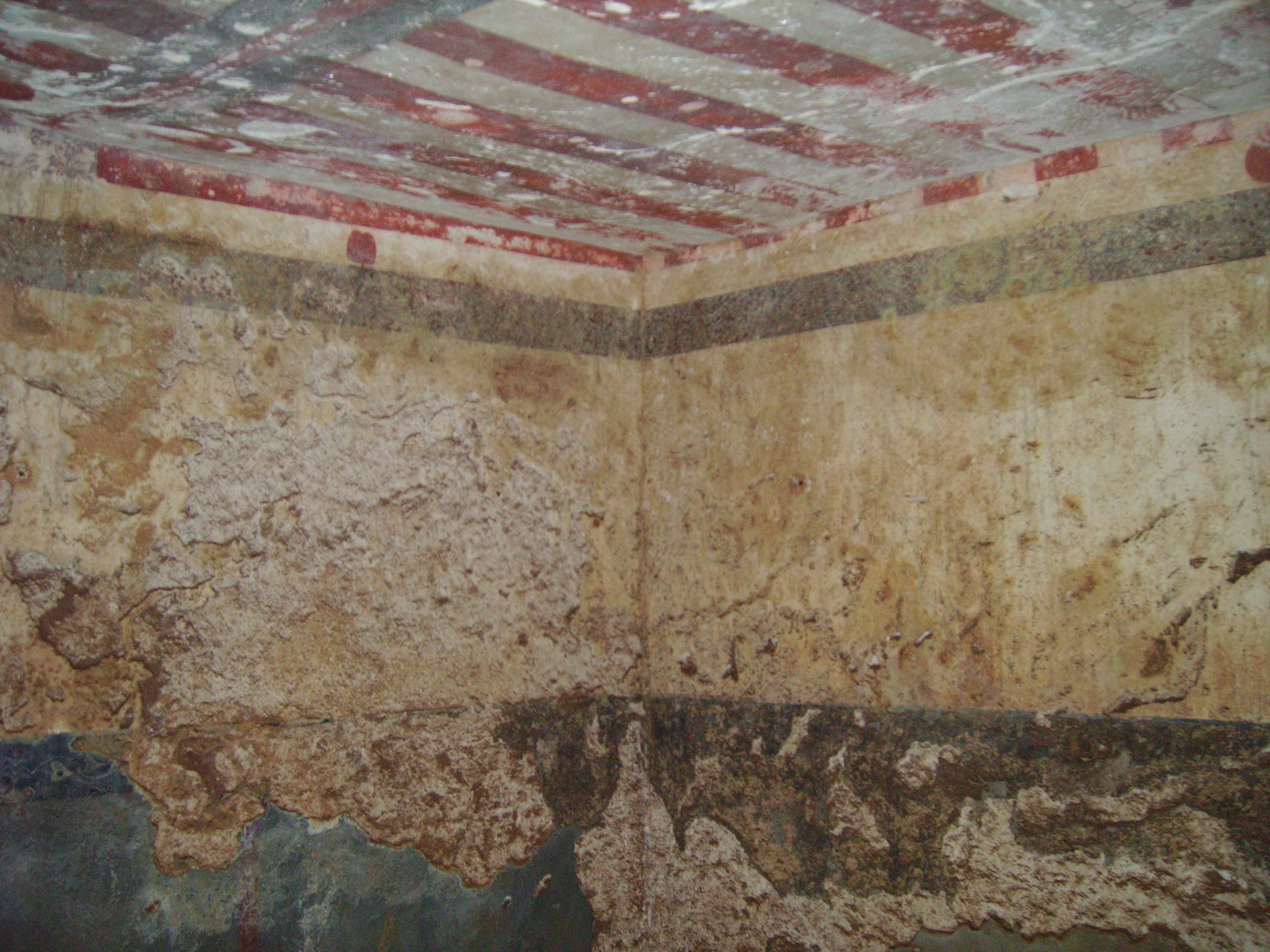 "Tomba del melograno" in Egnazia (Italy). The usage of this reproduction of a "cultural good" may be restricted by Italian laws, which requires a payment to the local Soprintendenza (government department responsible for the environment, historical buildings, monuments and other treasures) for any use of reproductions of these goods (article 107) that are not for a personal or educational purpose (article 108). Wikimedia Commons is not required to comply as it is hosted in the United States of America. Users who are citizens of Italy are warned that they are solely responsible for any possible violation of local laws. See our general disclaimer for more information. These restrictions are independent of the copyright status of the depicted work. The following are considered cultural heritage assets (article 10): state owned things with some artistic, historic, archeological or ethno-antropological interest such as artworks displayed in museums or galleries, archeological remains, historical buildings, libraries, archives collections, places of cultural and artistic interest, photographs, and other items declared cultural heritage by the Ministry of Cultural Heritage and Activities unless explicitly removed on a case by case basis. The national catalog of cultural heritage assets is not publicly accessible. Reproductions of Italian works classified as "cultural goods" may only be displayed on the Italian Wikipedia using the appropriate copyright tag under its Exemption Doctrine Policy. This requires that they be locally uploaded, low resolution, and must have a rationale for their use. The full-resolution copies on Commons must not be used.